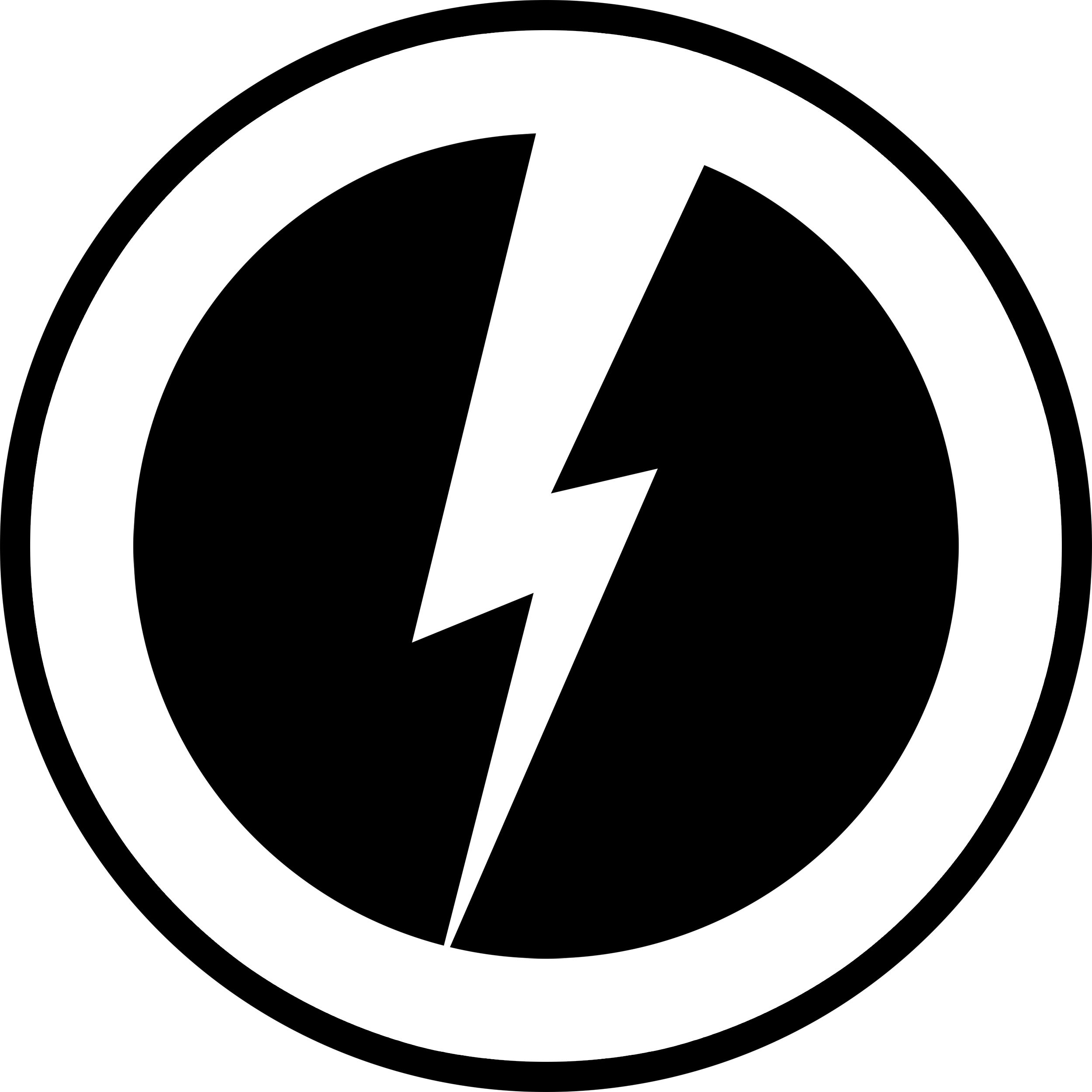 Logo of the Italian student organization "Blocco Studentesco" affiliated to the right wing party "Casa Pound"